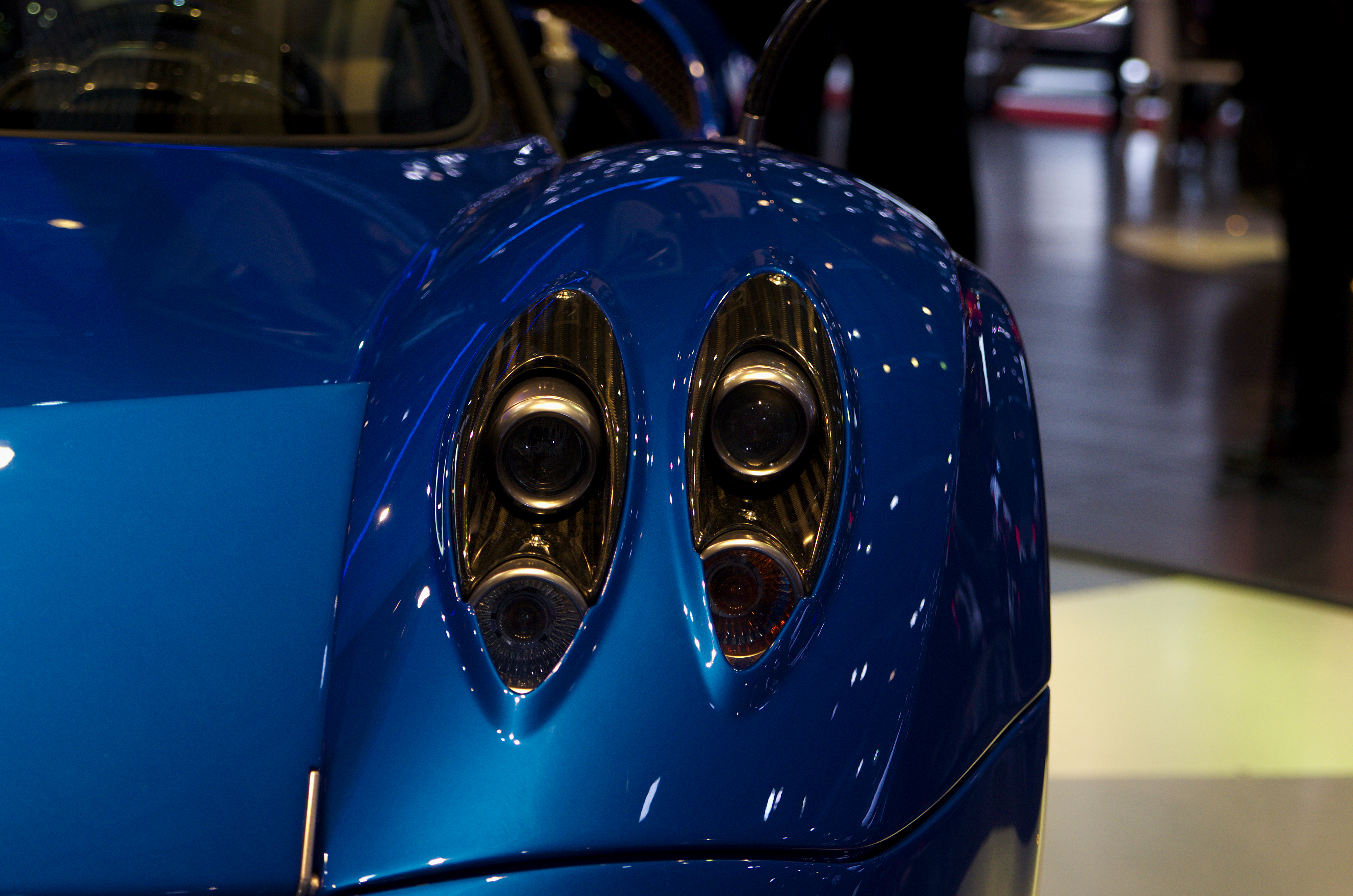 Geneva MotorShow 2013 - Pagani Huayra blue front lights